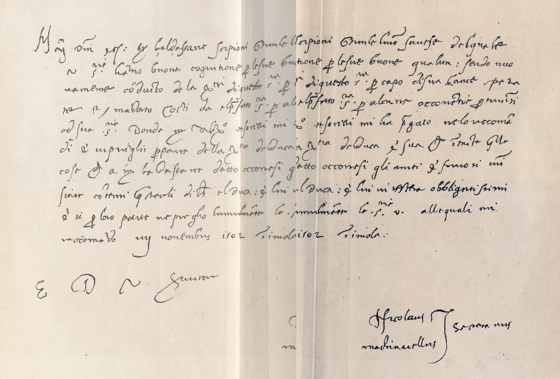 Official letter written by Machiavelli in November 1502 from Imola to Florence.